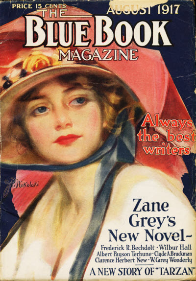 Blue Book Magazine, August 1917